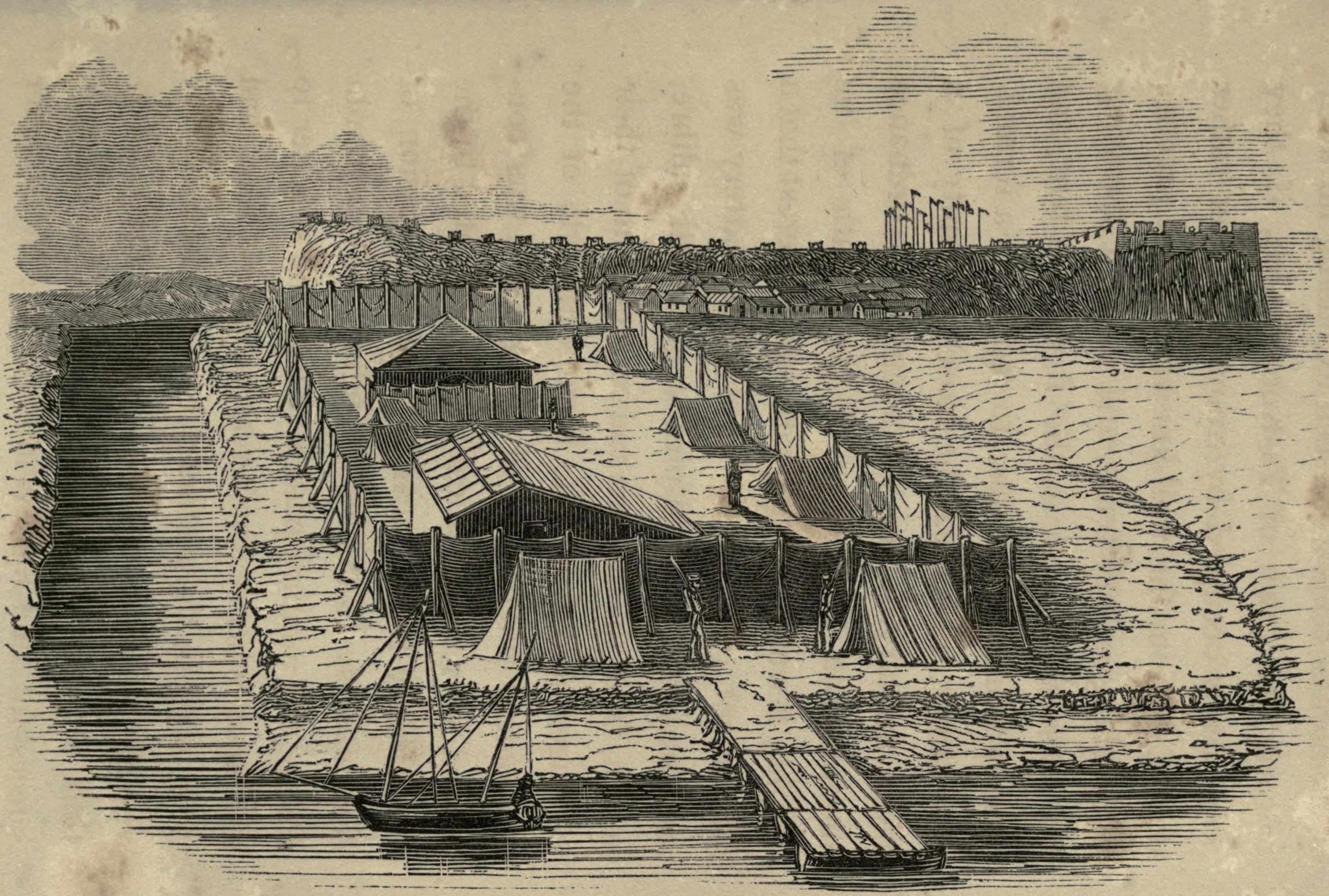 Encampment at Toong-koo, where Captain Elliot met Keshen. The caption in Ouchterlony's book may be erroneous in the place name. Elliot and Keshen are known to have met at the Bogue (Humen) forts in the Pearl River estuary. The background appears to resemble a fort. Toong-koo (modern-day Lung Kwu Chau) is located much further south at the mouth of the estuary.